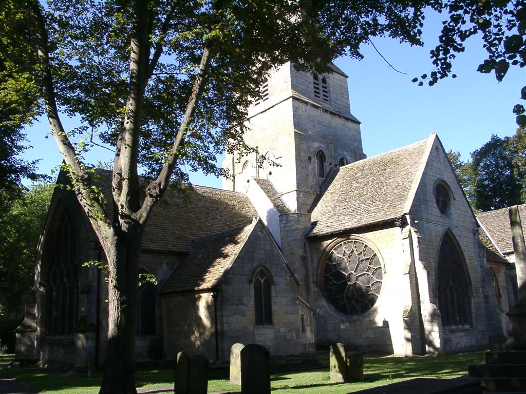 View of the Rose Window from the outside of St. Mary's, Cheltenham.